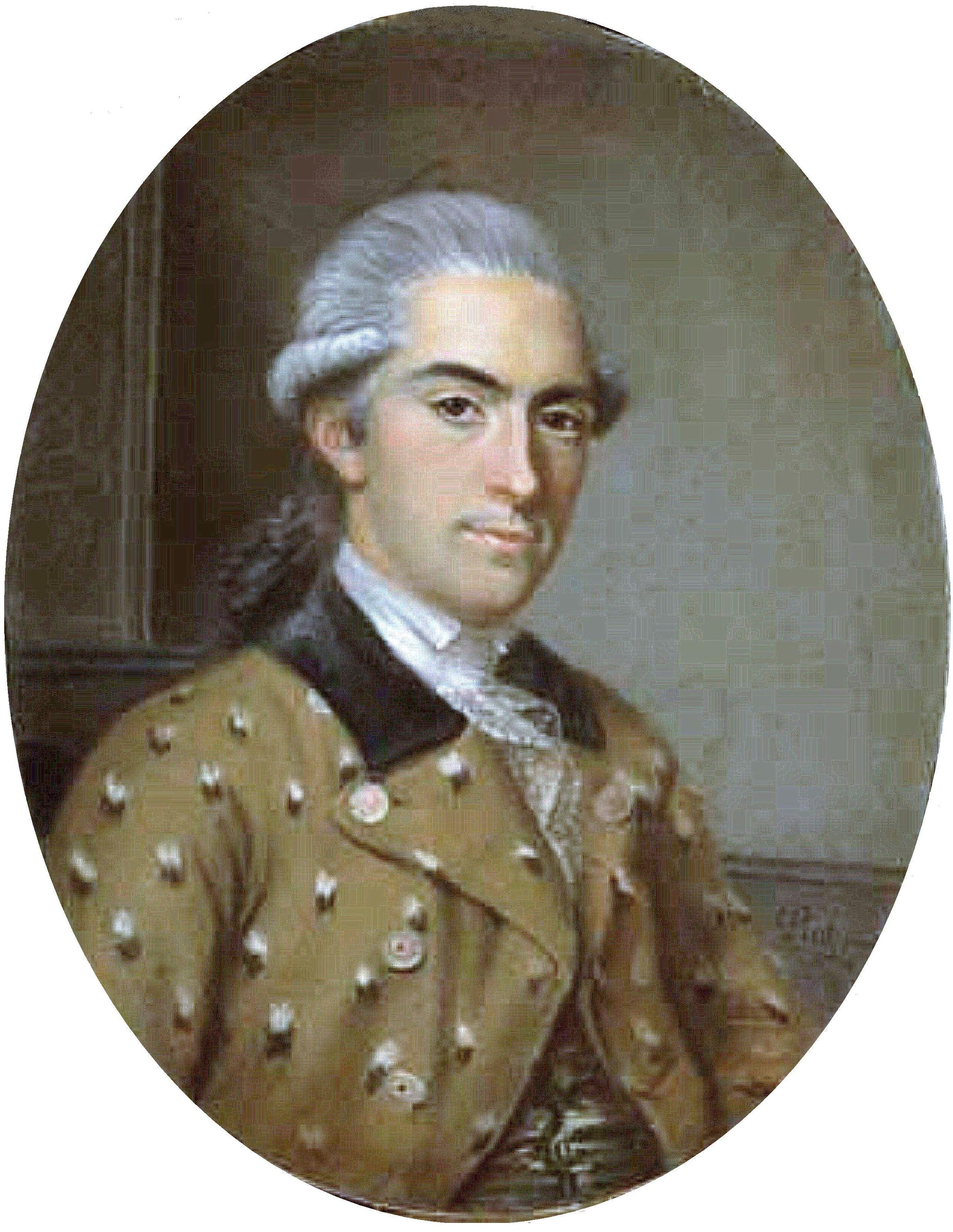 Mr Diederik Johan Count Van Hogendorp Van Hofwegen (1754-1802)